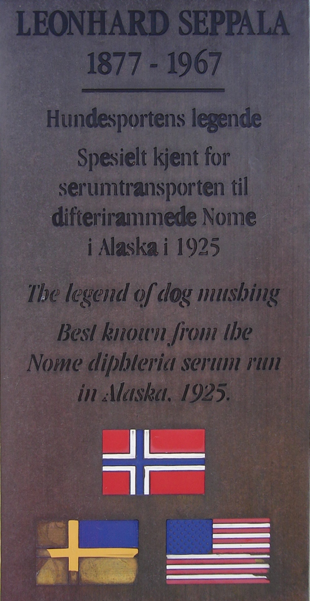 Seppala memorial plaque.